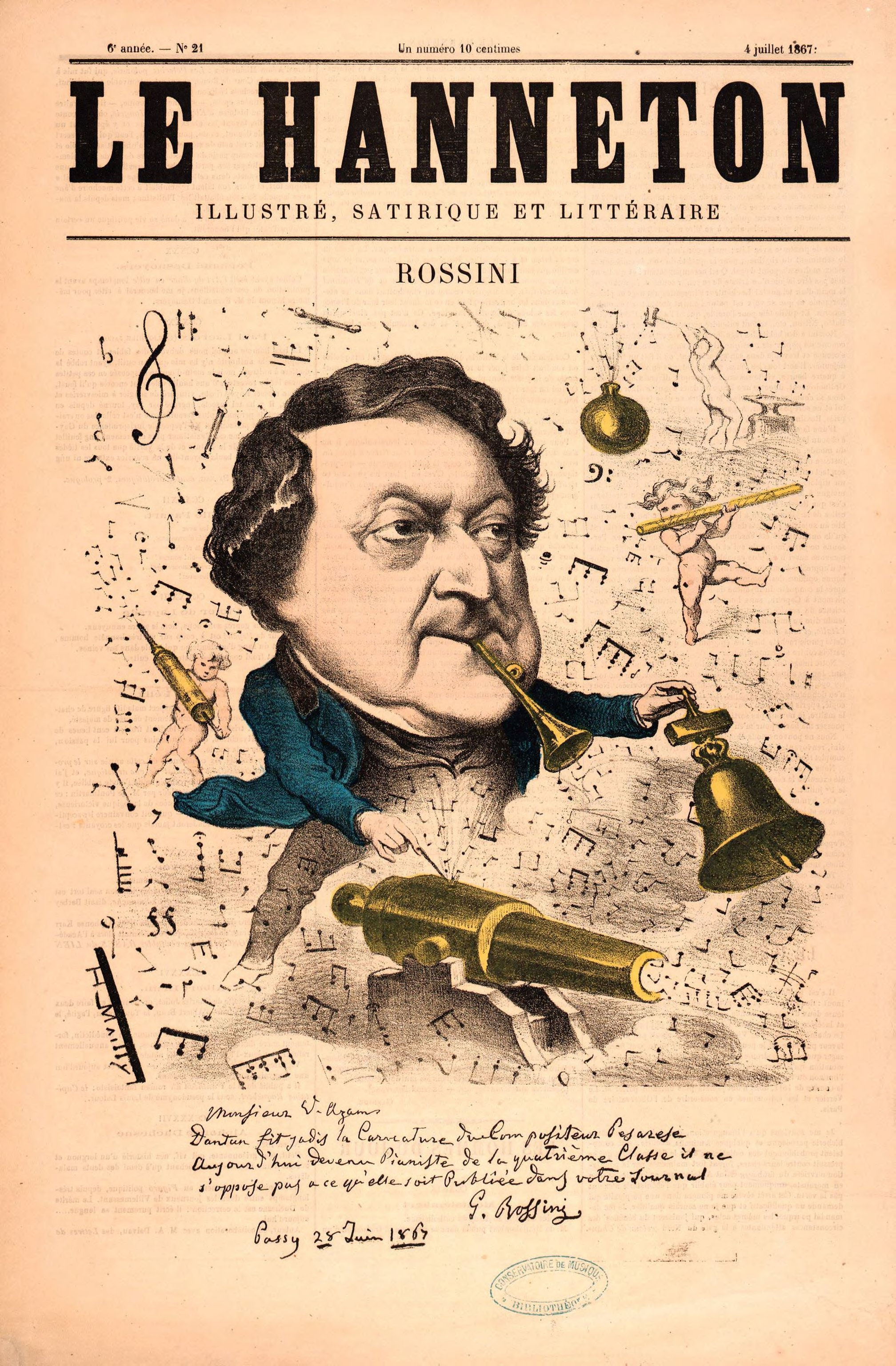 caricature of Rossini, drawing by Hippolyte Mailly (1829-18..)